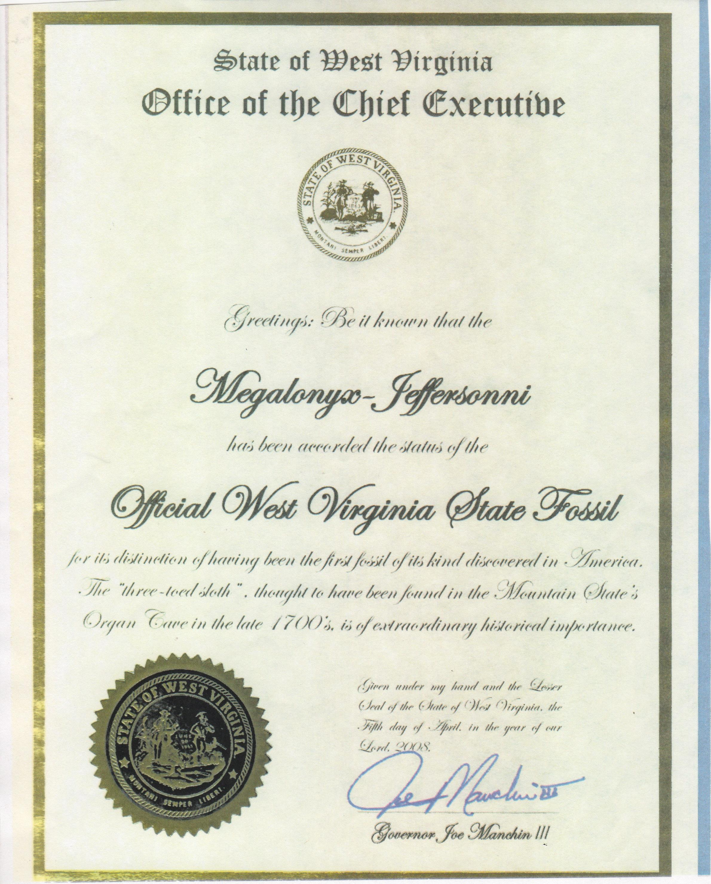 The certificate that states that the Megalonyx jeffersonii is the official West Virginia State Fossil and was found inside of Organ Cave.